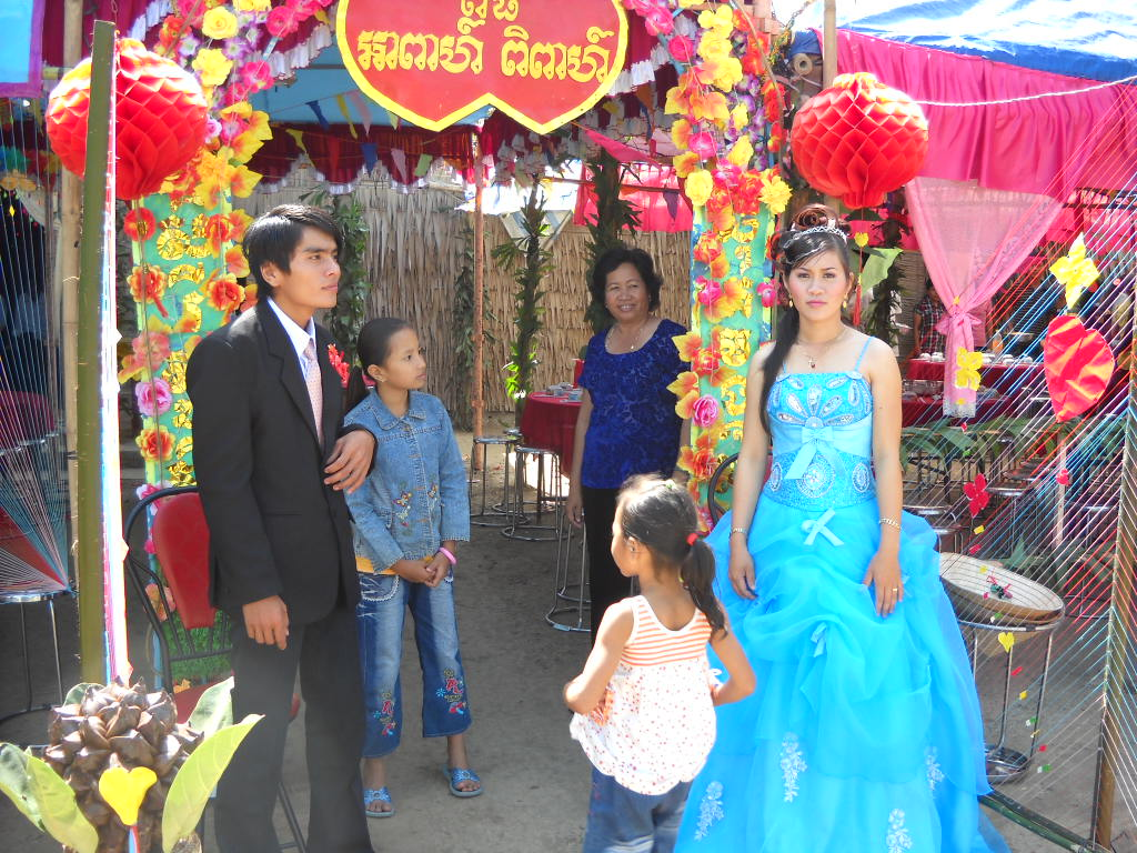 Marriage of Khmer Krom, Vietnamese Khmer people